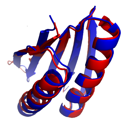 Superposition of TOP7 Rosetta-produced model (in blue, PDB file here) and its x-ray crystal structure (red, PDB ID: 1QYS). Generated in PyMol.